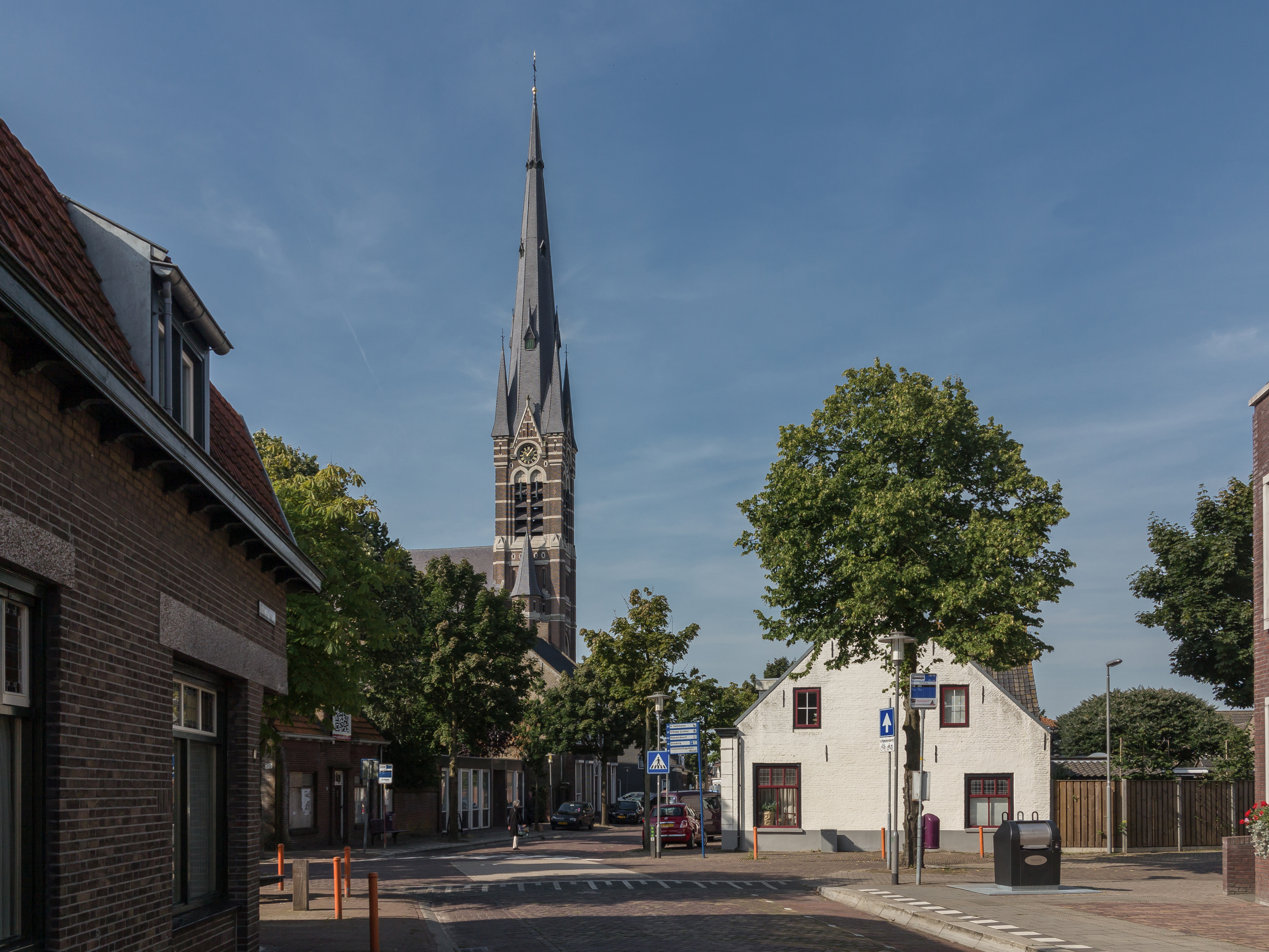 Church Sint-Gummaruskerk in Wagenberg